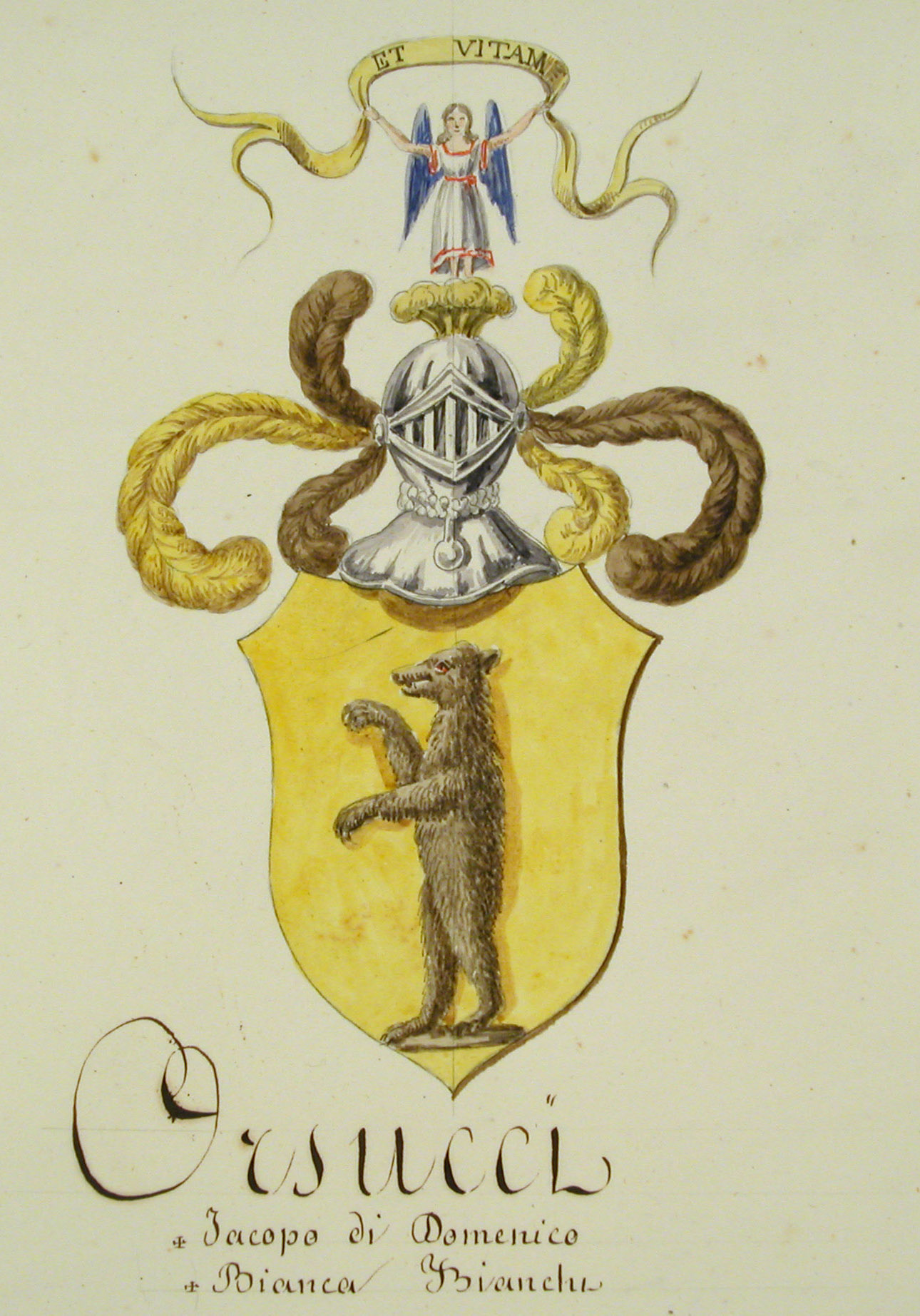 Family coat of arms, more than 100 years old. In circulation on the Internet.